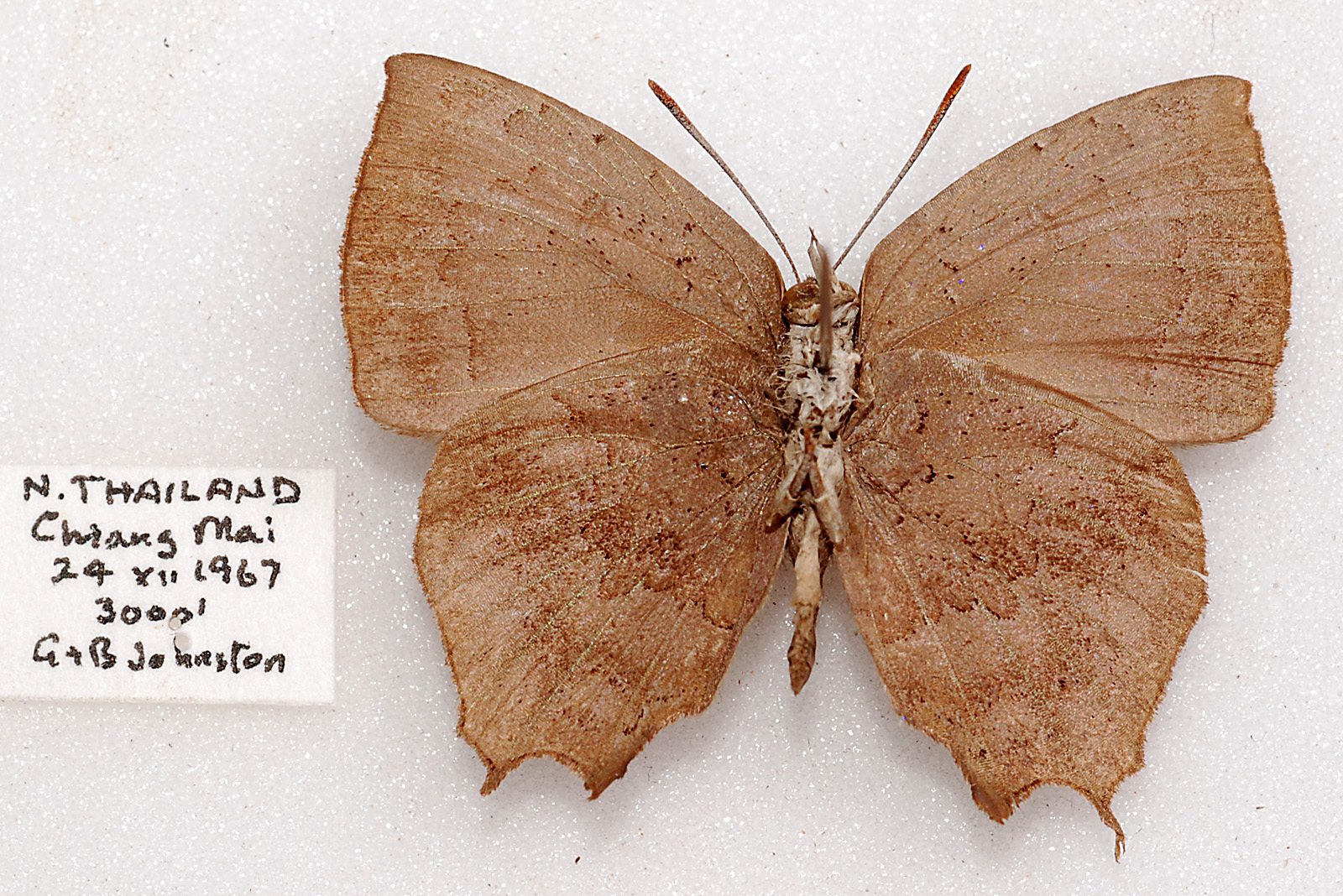 Surendra quercetorum, Thailand, male, Underside, set specimen, Alan Cassidy photo